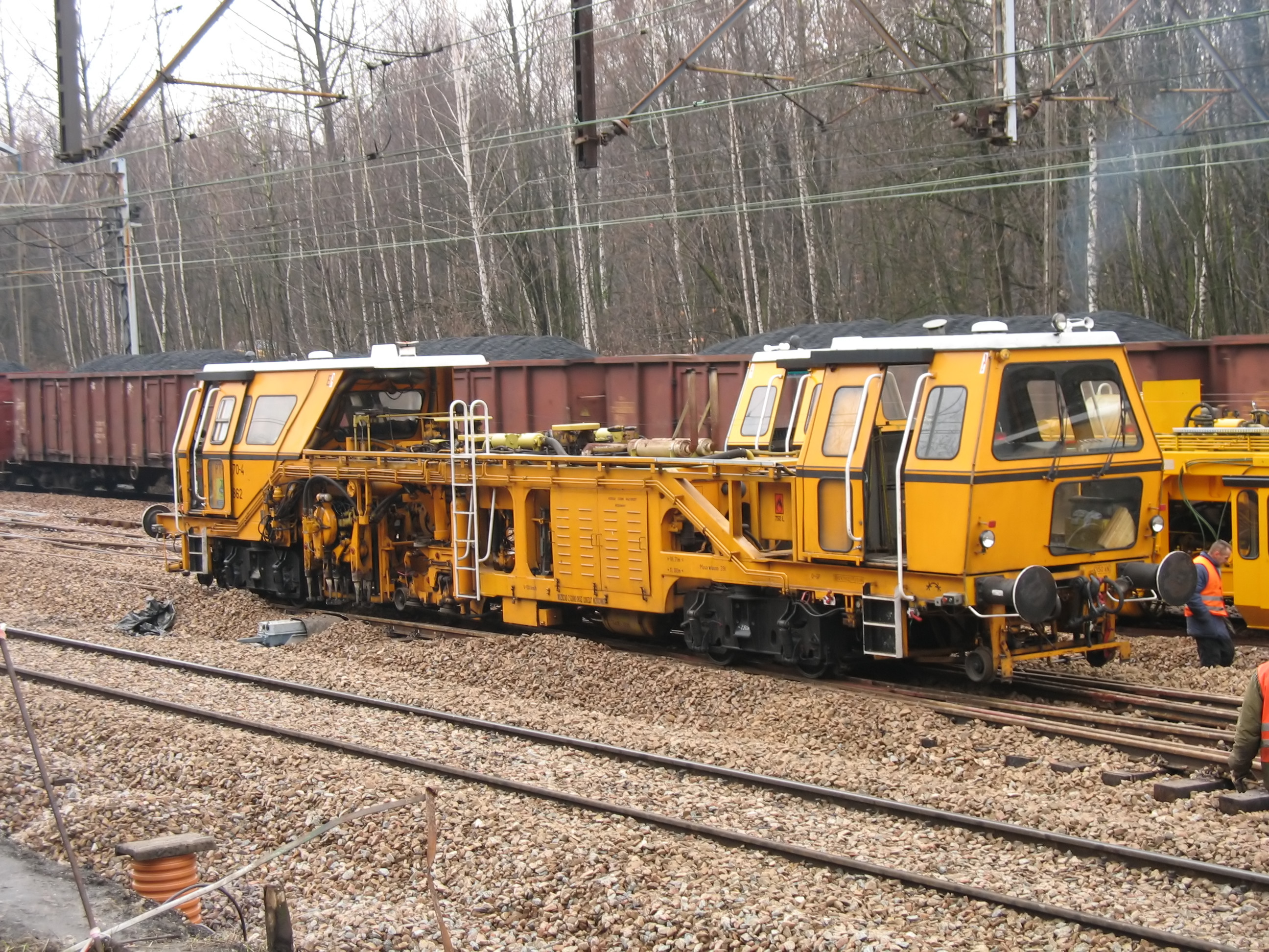 Railway works vehicles in Zabrze in Poland.